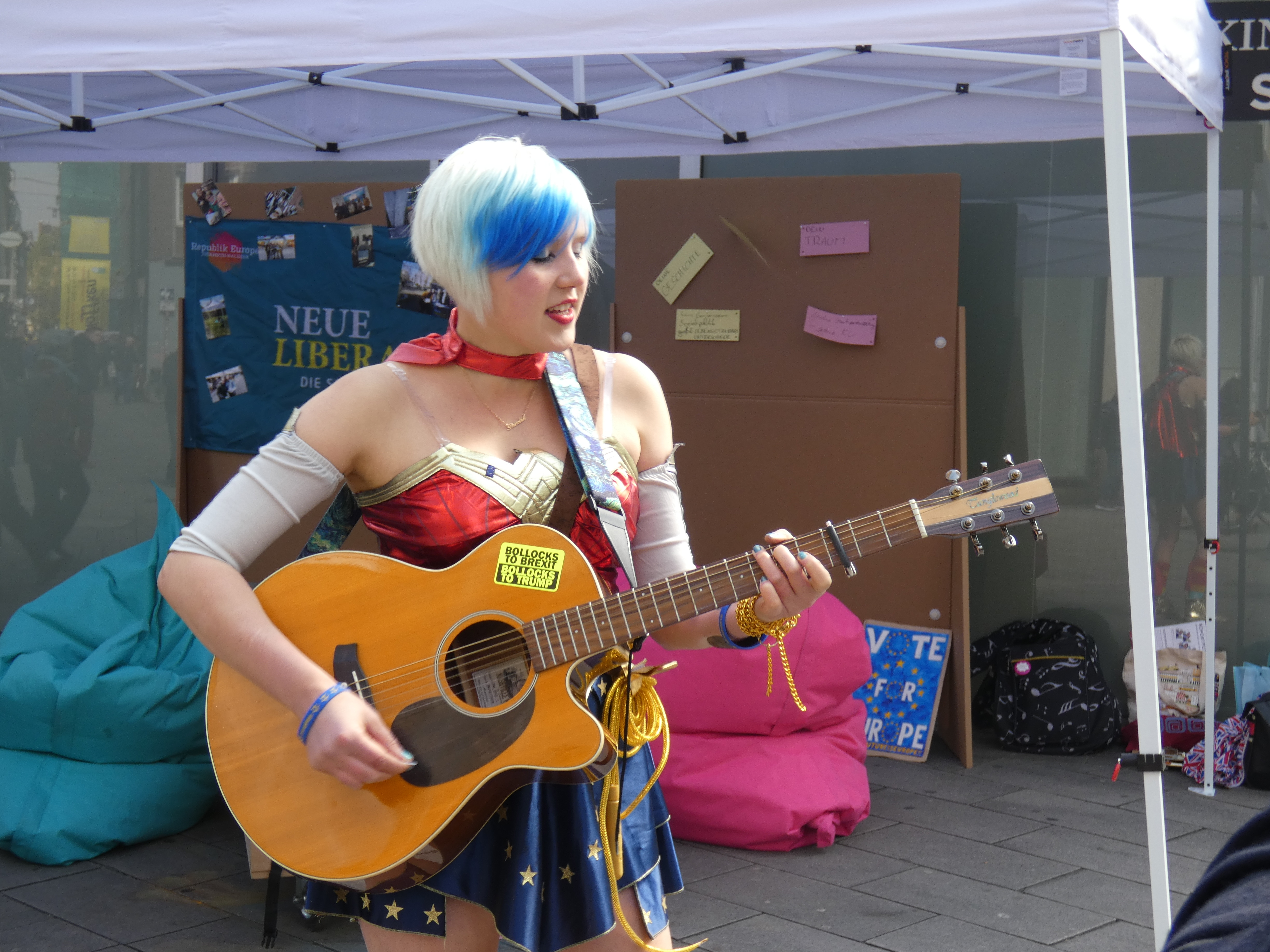 Madeleina Kay as EUsupergirl (EUwonderwomen) in Düsseldorf at a European Election Campaign Event of Neue Liberale with contender Chris Pyak